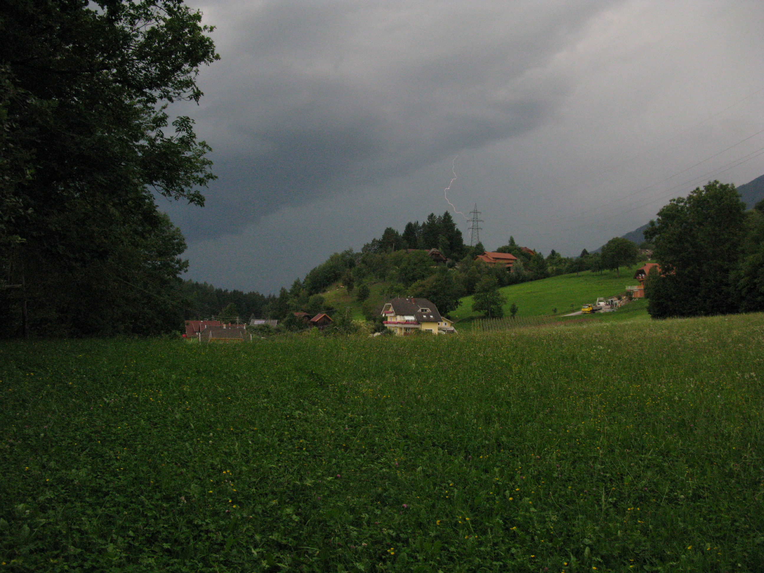 Thunderstorm over Görtschach, a dispersed settlement near lake Millstatt / Carinthia / Austria / EU. The lower district consists mainly of buildings dating from the 1950s and later.